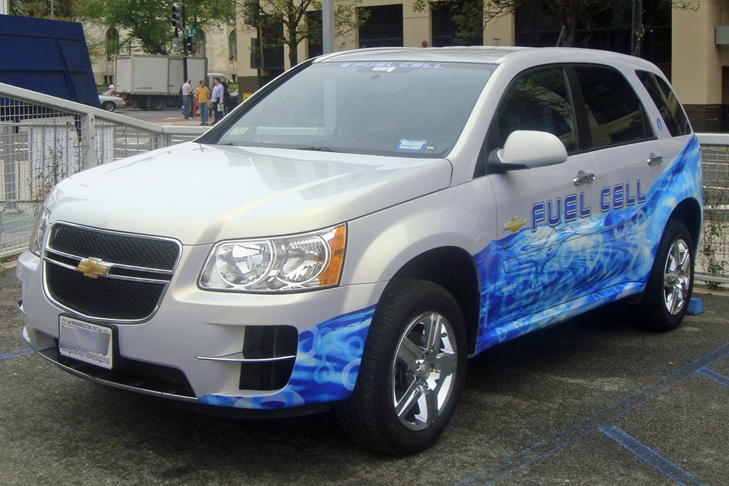 Chevrolet Equinox Fuel Cell participating in the Ride, Drive & Charge event organized by the EDTA, downtown Washington, D.C.